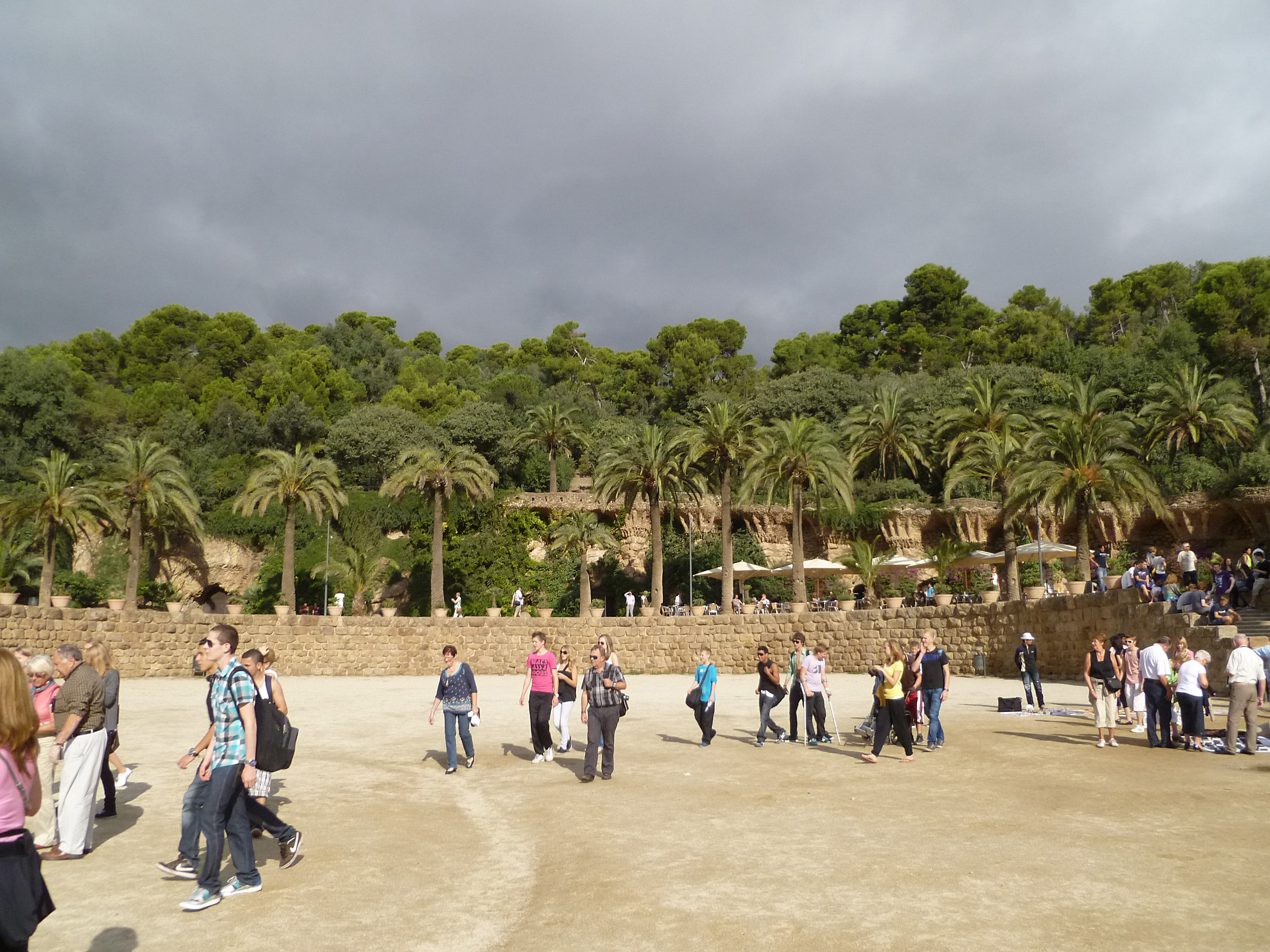 Main square in the Parc Güell, Barcelona, Spain